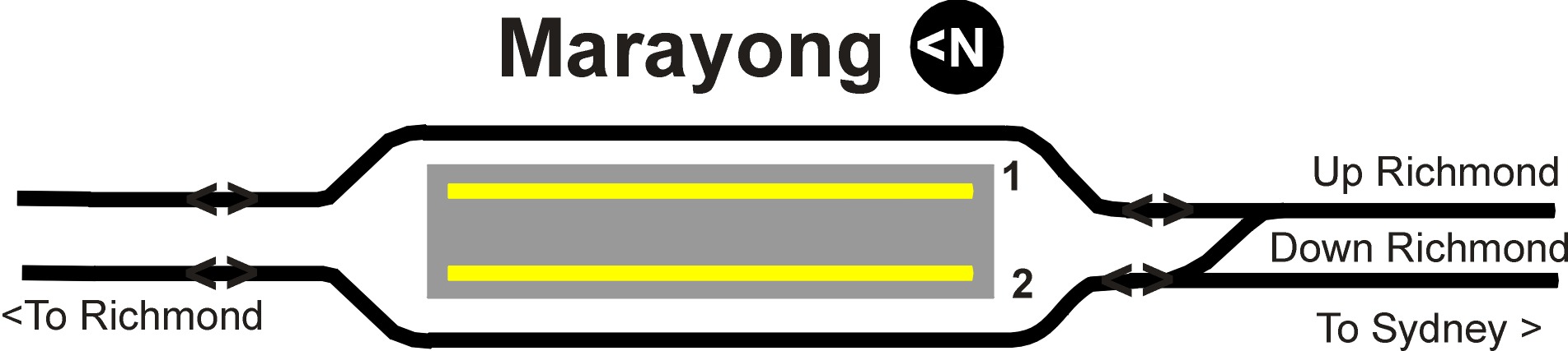 Track layout at Marayong railway station, Sydney